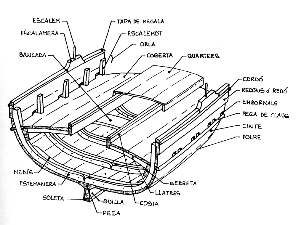 Parts of a boat in catalan